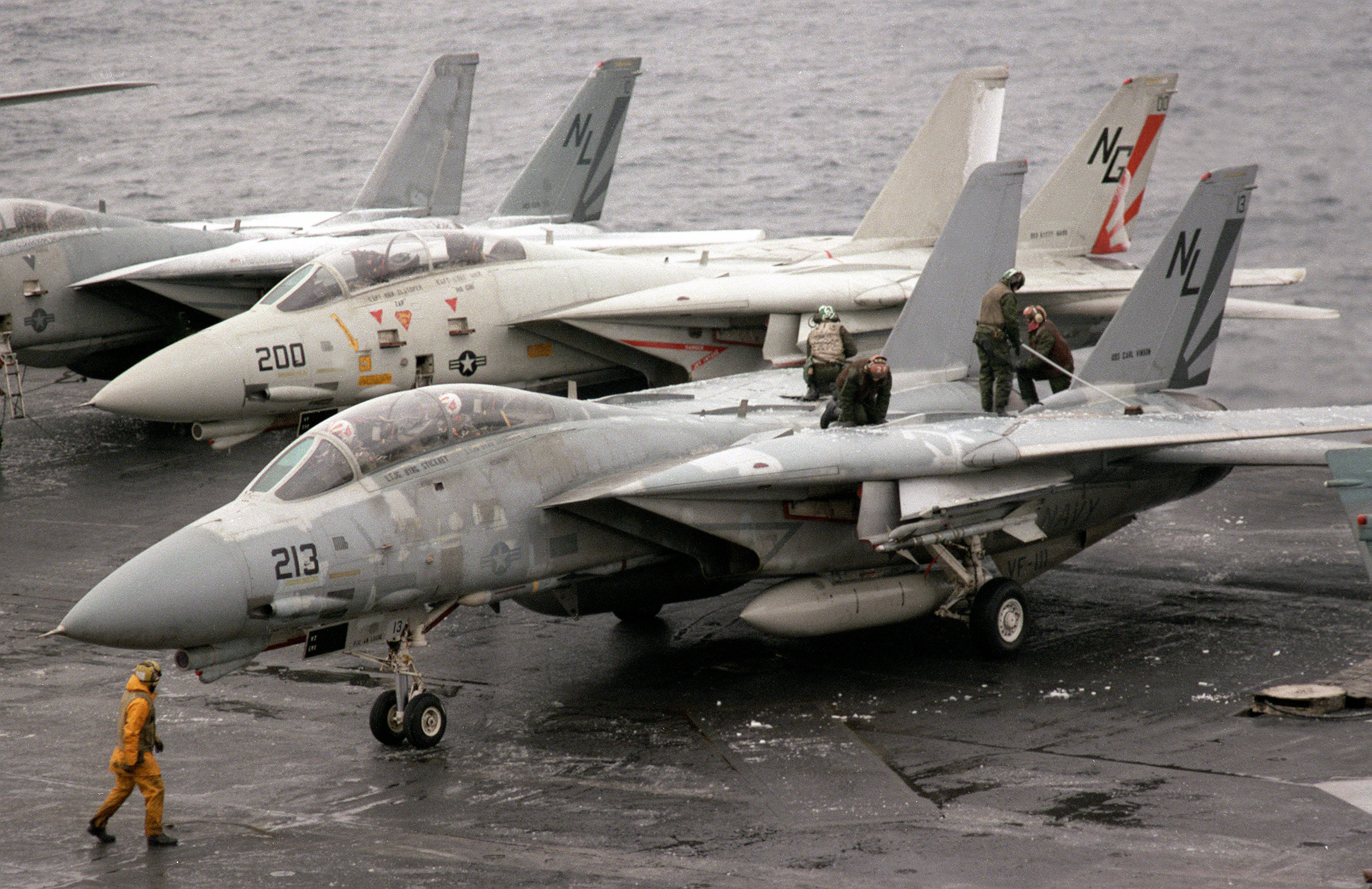 A U.S. Navy aircraft handling crewmen brush snow and ice off the wings of Grumman F-14A Tomcat aircraft (BuNos 160660, 160668, 161153) of Fighter Squadron VF-111 Sundowners during flight operations aboard the aircraft carrier USS Carl Vinson (CVN-70) in 1987. VF-111 was assigned to Carrier Air Wing 15 (CVW-15) aboard the Carl Vinson for a deployment to the Western Pacific and the Indian Ocean from 12 August 1986 to 5 February 1987. Note the lighter camouflage of the F-14A 160660 ("200"), which wears the tail code "NG" of CVW-9 and the name of CVW-9's (then) parent carrier, USS Kitty Hawk (CV-63). The rudders, however, show the markings of VF-111.